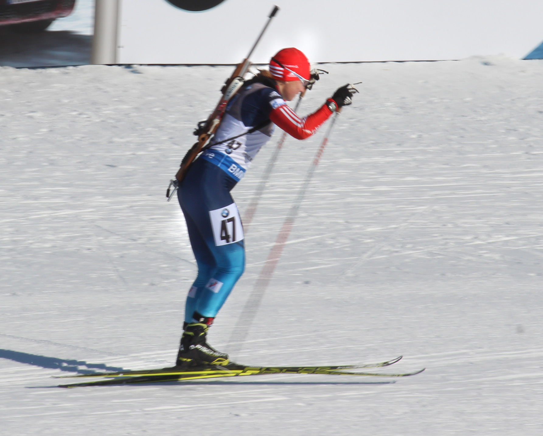 Olga Podchufarova at Biathlon World Cup 2015 in Nové Město, Czech Republic – sprint women